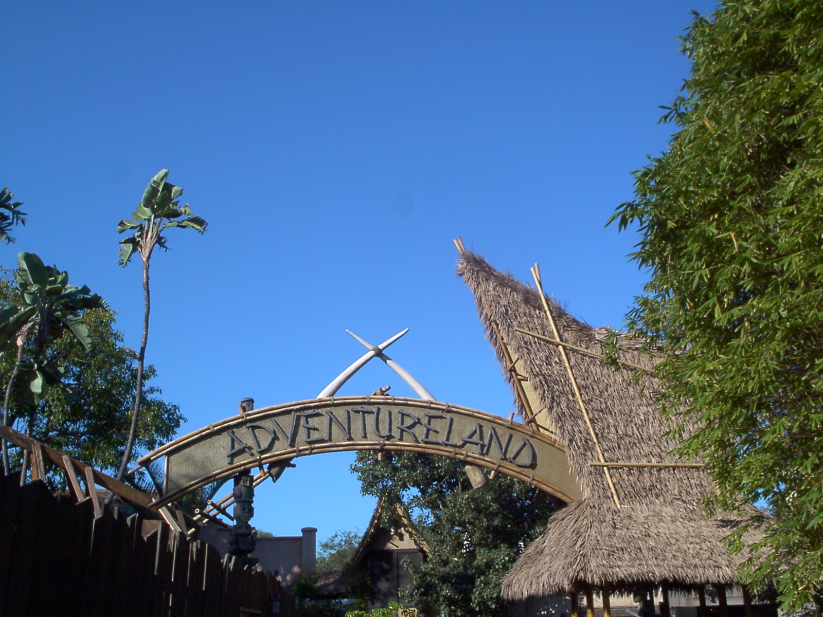 Entrance to Adventureland